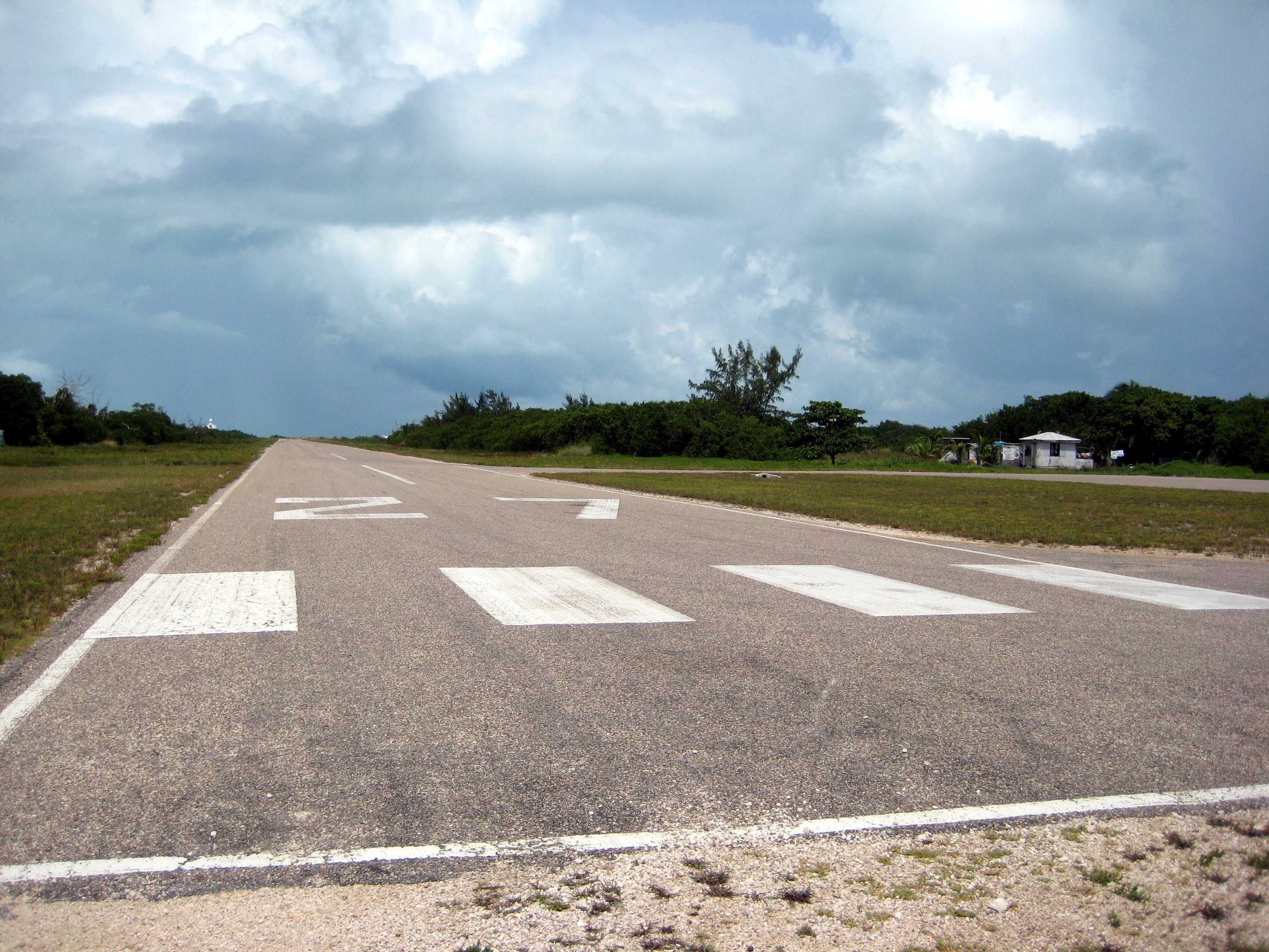 Caye Caulker airport, looking west.